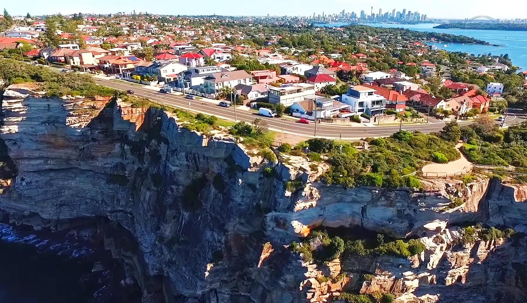 The clifftop, hilly homes in Vaucluse in the eastern suburbs of Sydney, Australia.